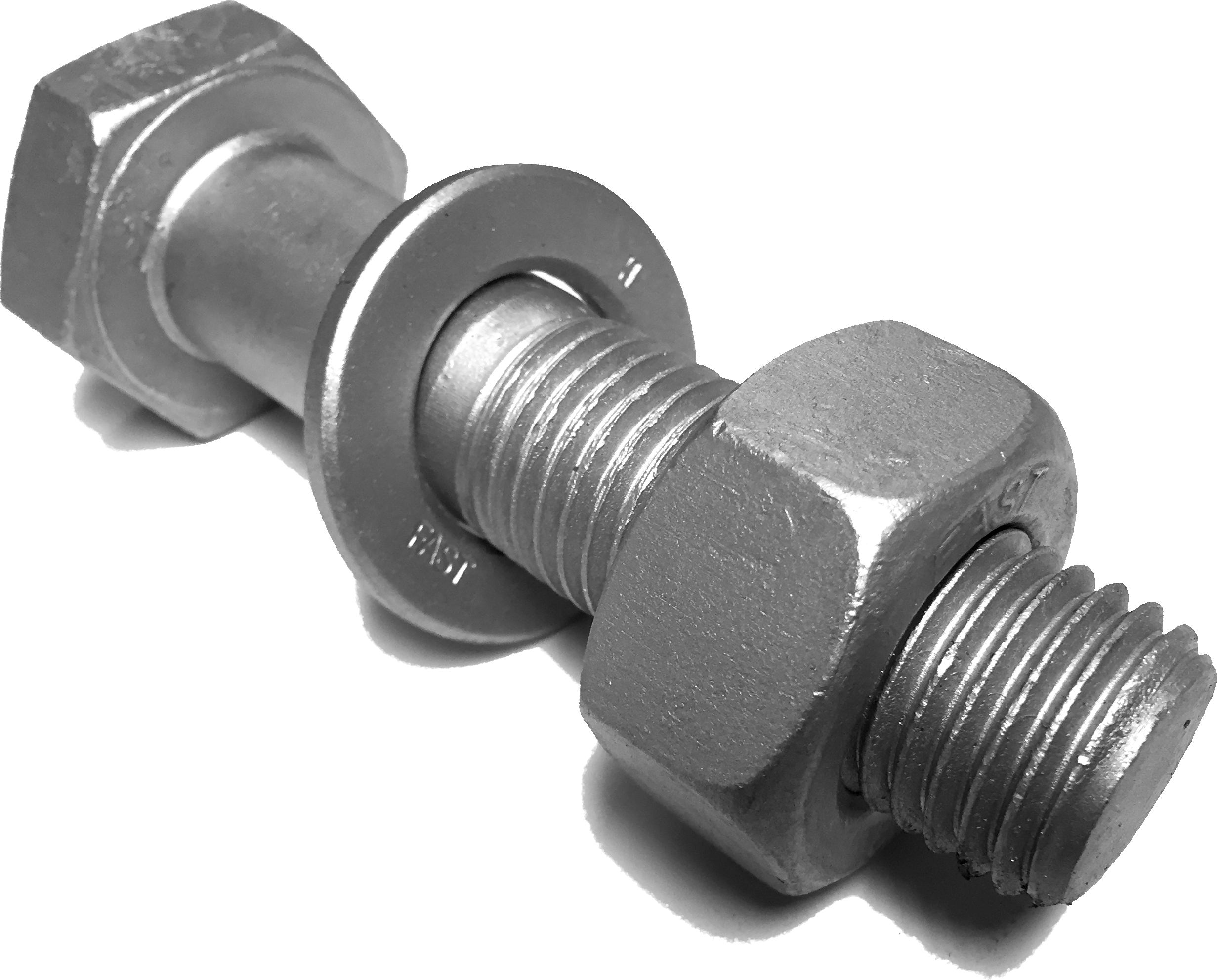 EN 14399 Pre-load bolt assembly (System HR). M30 HR Bolt (EN 14399 Part 3), Nut (EN 14399 Part 3) and Washer (EN 14399 Part 6) in galvanised finish (Hot Dip Galvanised, HDG). FAST Headmark of Andrews Fasteners Limited.